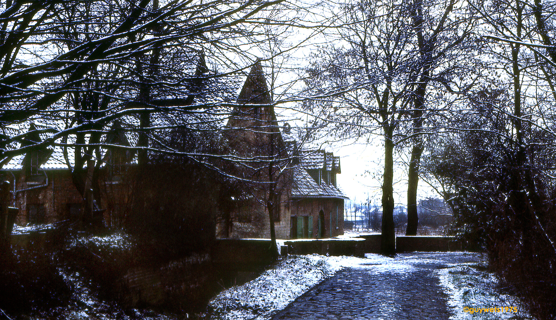 Le Moulin du Nekkersgat est un moulin à eau dont l'origine remonte au xiie siècle, situé rue Keyenbempt à Uccle